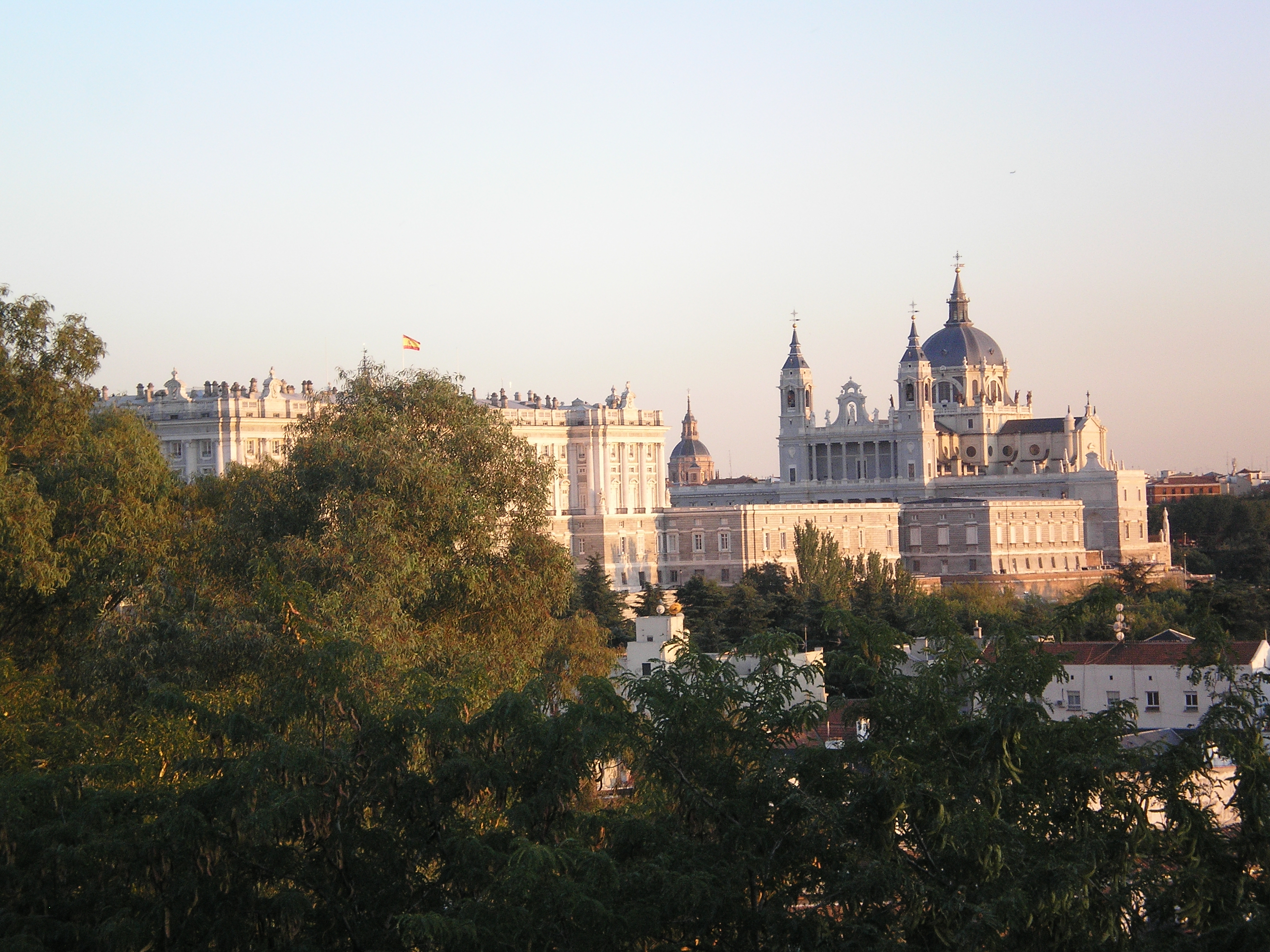 Almudena Cathedral, Madrid.